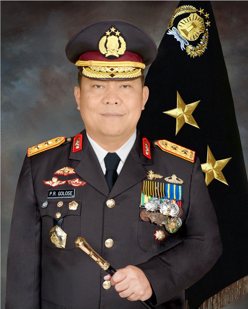 Chief of Bali Regional Police, Inspector General Petrus Reinhard Golose in 2016.